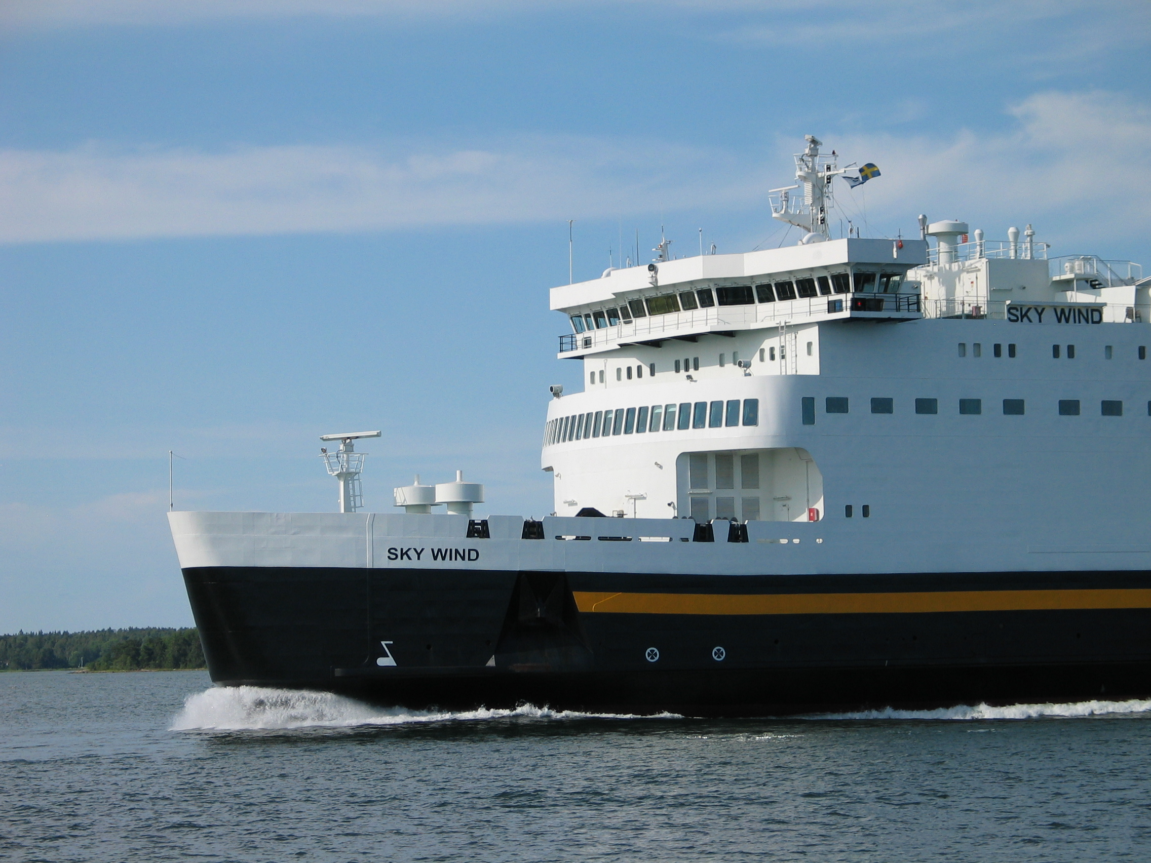 M/S Sky Wind between Yxlan and the main land, photo taken in Sweden. Passengers: 370 Year Built: 1986 Passenger cars: 55 Length: 188.9 m Width: 23.73 m Max speed: 17.5 kn Ice class: 1B IMO number: 8420842